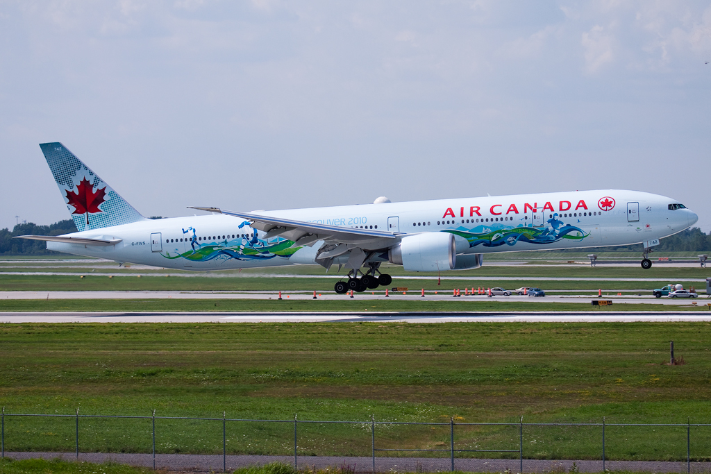 Air Canada Boeing 777-333ER C-FIVS "Olympic Mural" on just about to touch down at Montreal Pierre Elliot Trudeau International Airport (CYUL) on Runway 06R. Arriving from Paris, France as Air Canada AC871. This aircraft is the last 777-333ER delivered to Air Canada as part of the original order, and was delivered with these decals applied.